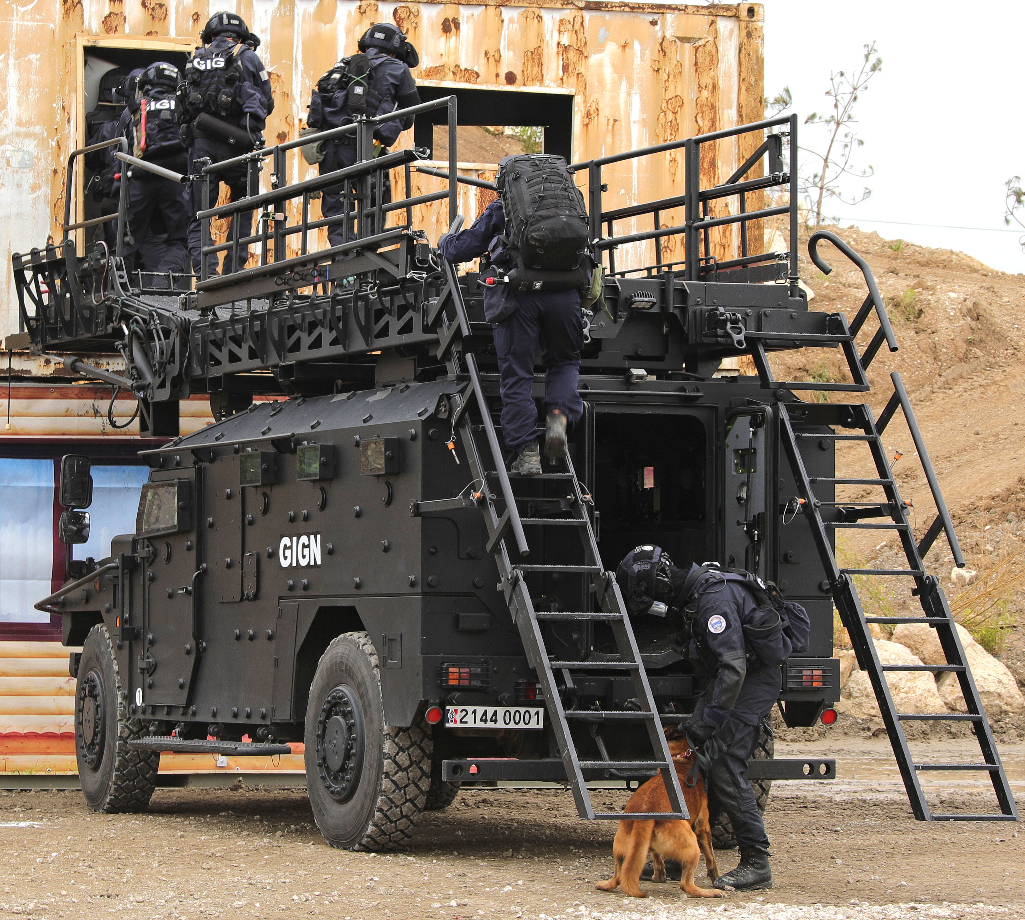 GIGN Sherpa assault truck during a demo. June 2018